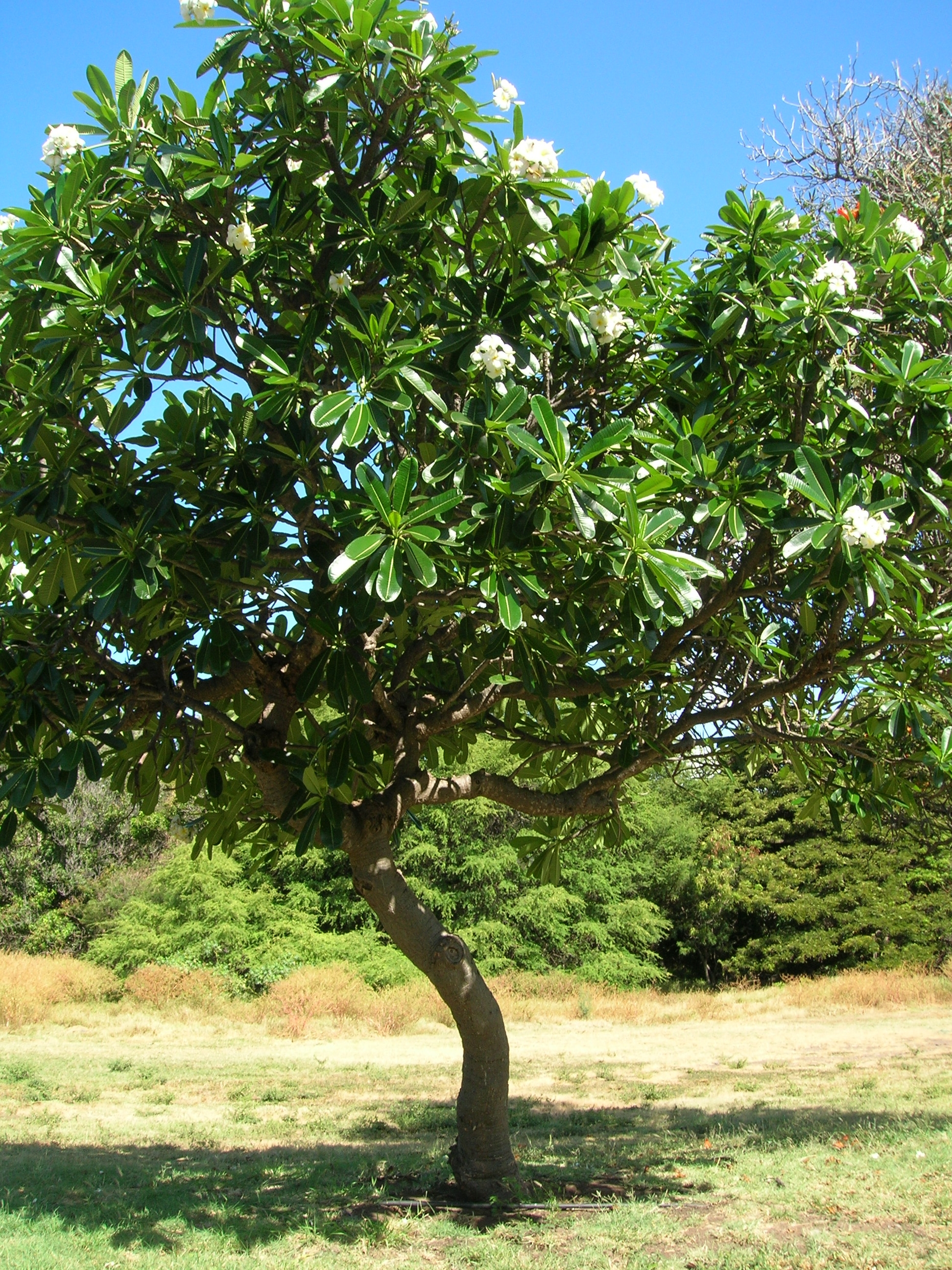 Plumeria obtusa (habit). Location: Molokai, Kawela Heights